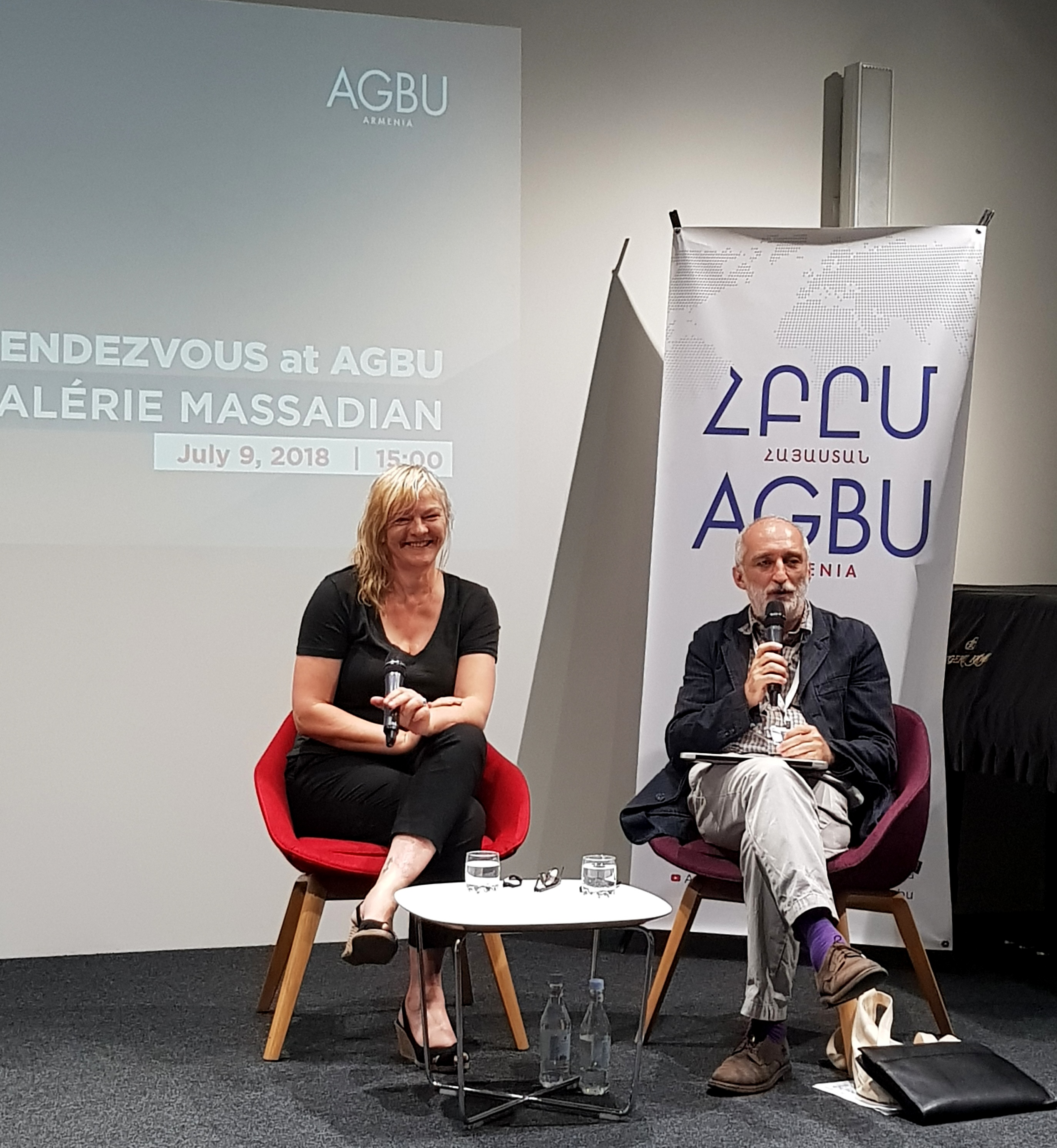 Rendezvous at AGBU with Valérie Massadian